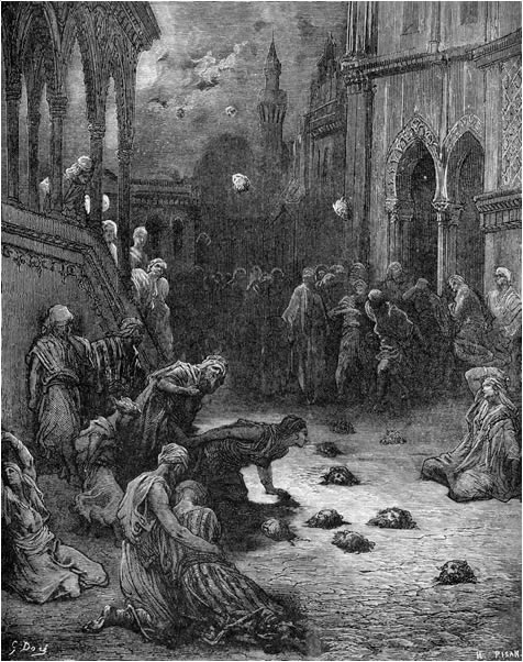 After the battle of Nicea